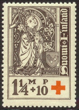 Postage stamp depicting the Finnish bishop Magnus II Tavast